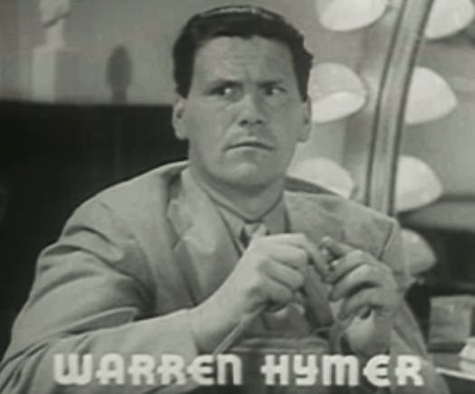 Warren Hymer in Meet the Boyfriend - cropped screenshot